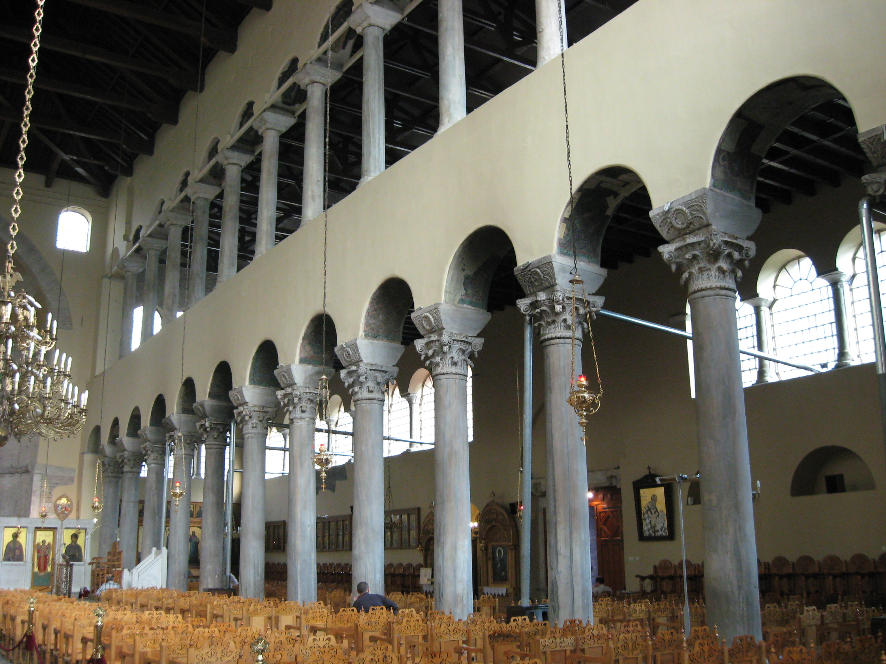 Interior of the Church of the Acheiropoietos